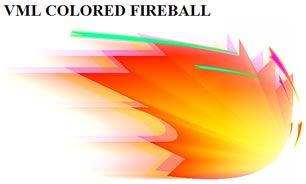 VML properties graphic example